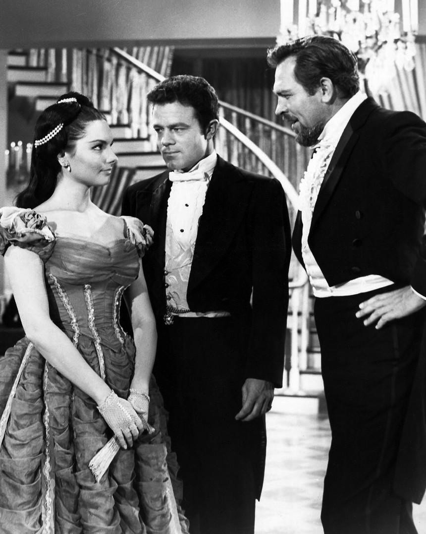 Photo of Suzanne Lloyd, Jack Ging as Beau McCloud, and Howard Keel. This episode deals with a southern plot to avenge the South's loss of the Civil War. Ging as McCloud is initially part of the plot but later decides to join with Wells Fargo agent Jim Hardie (Dale Robertson). This was Ging's character's introduction to the television program Tales of Wells Fargo.